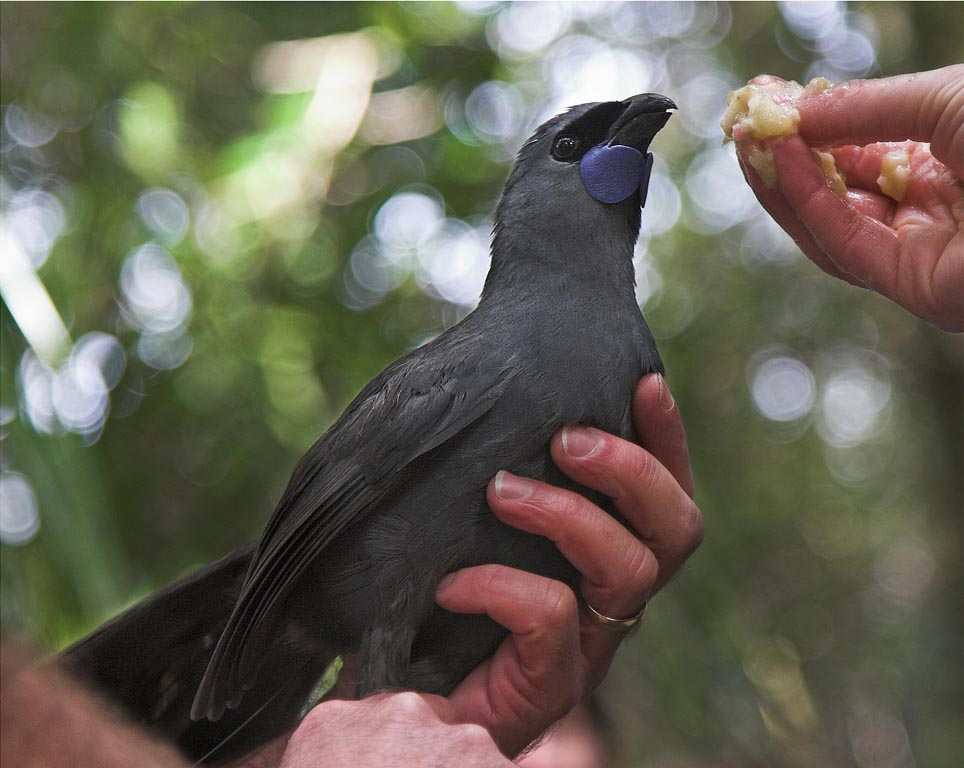 One of 14 Kokako (an endangered bird) that have been released in the Auckland Hunua Ranges. It is hoped that these birds will breed and increase the genetic diversity of the Hunua Kokako, which only number about 10 pairs. There are major recovery programmes in place in many parts of New Zealand, when you hear these birds calling in the bush it makes the effort worthwhile.